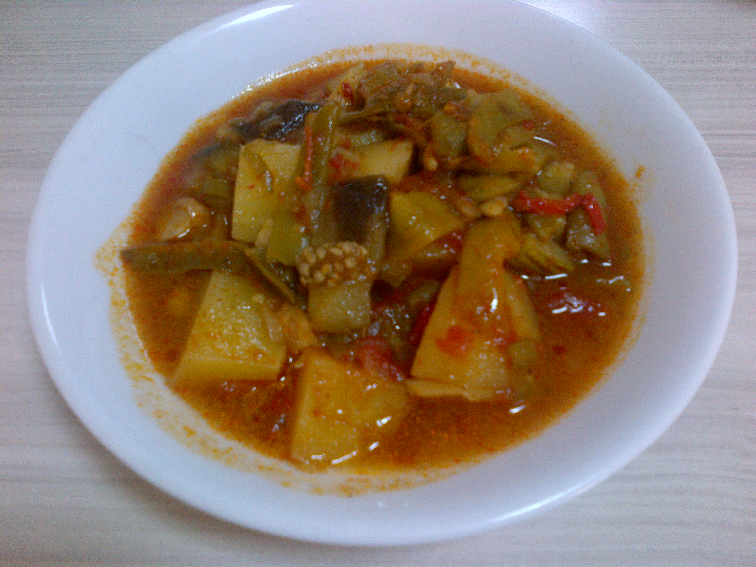 Türlü with green beans, but without carrots.